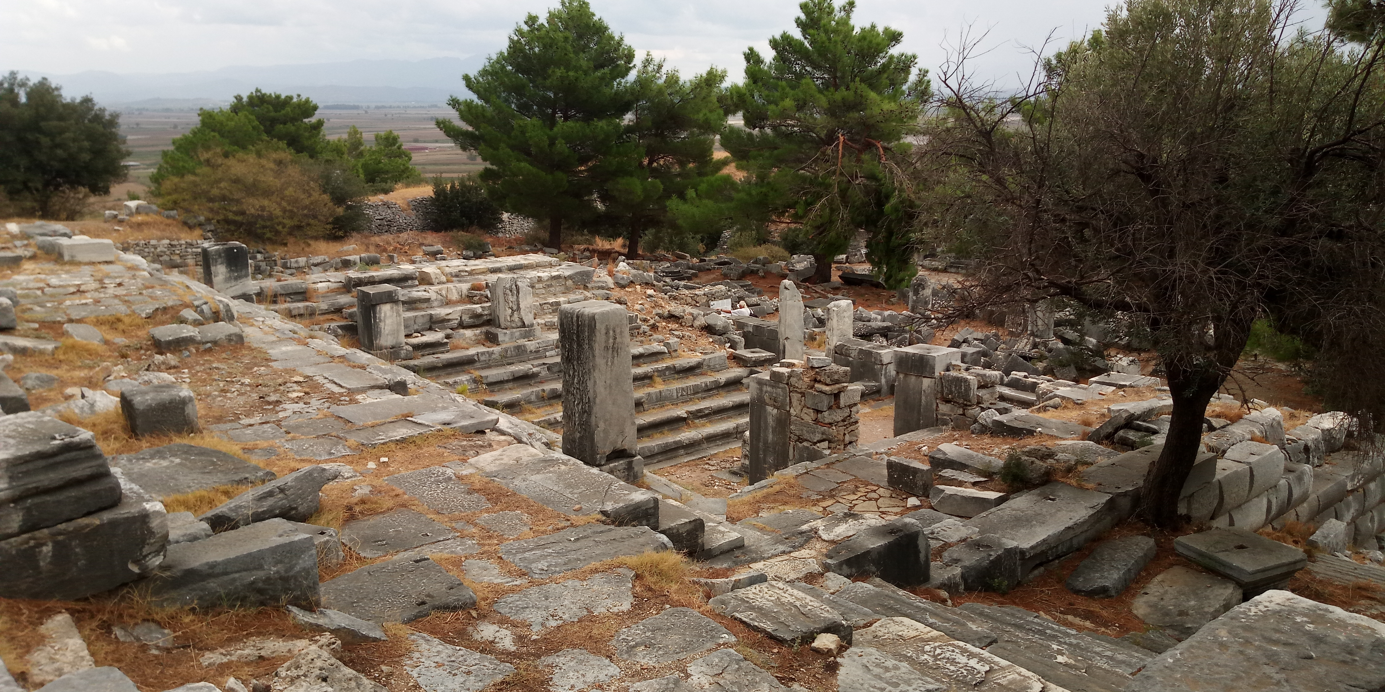 Bouleuterion, Priene, view from northwest